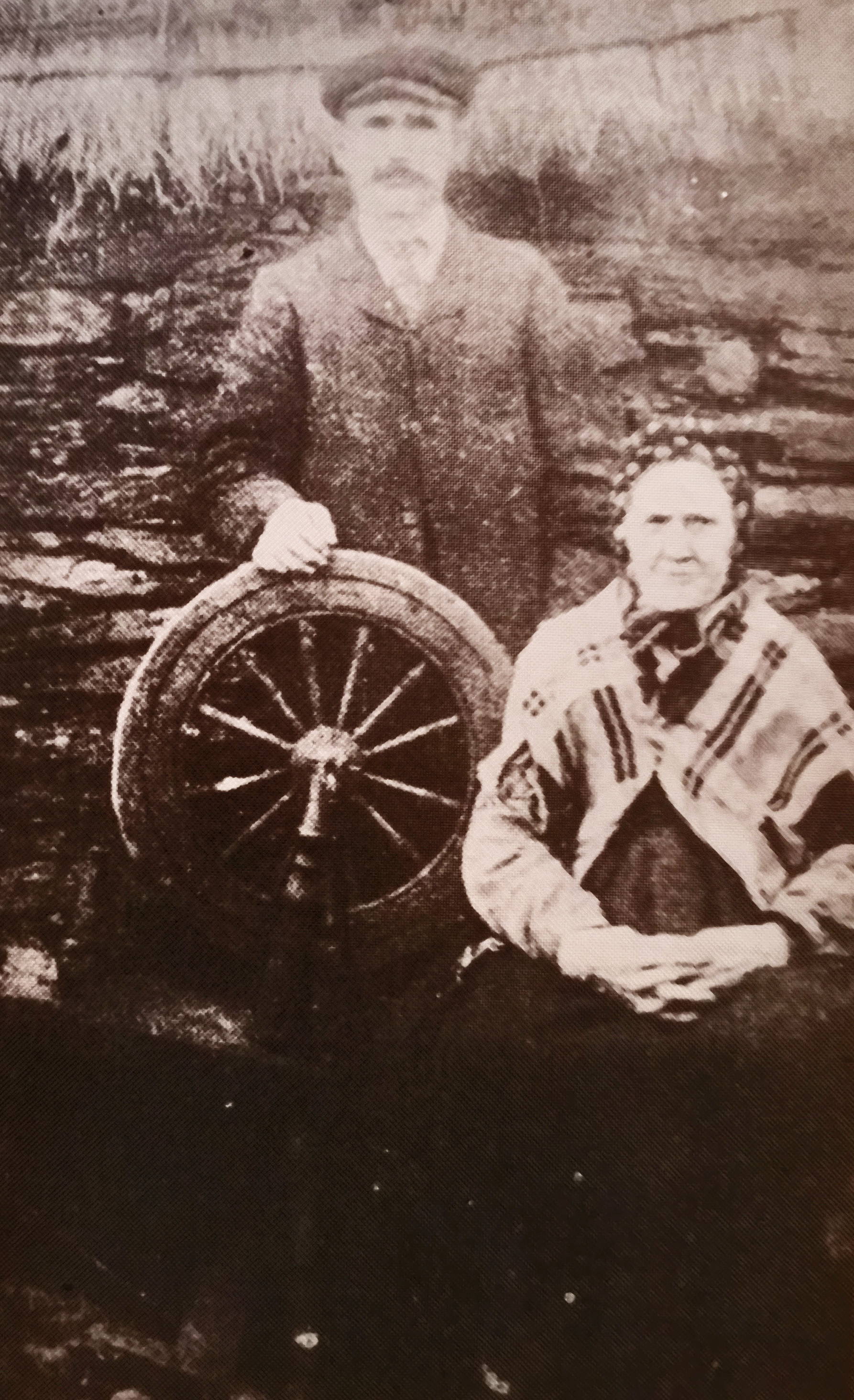 Neil McBride with his mother in 1900.